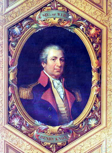 Henry Knox, Mural medallion portrait